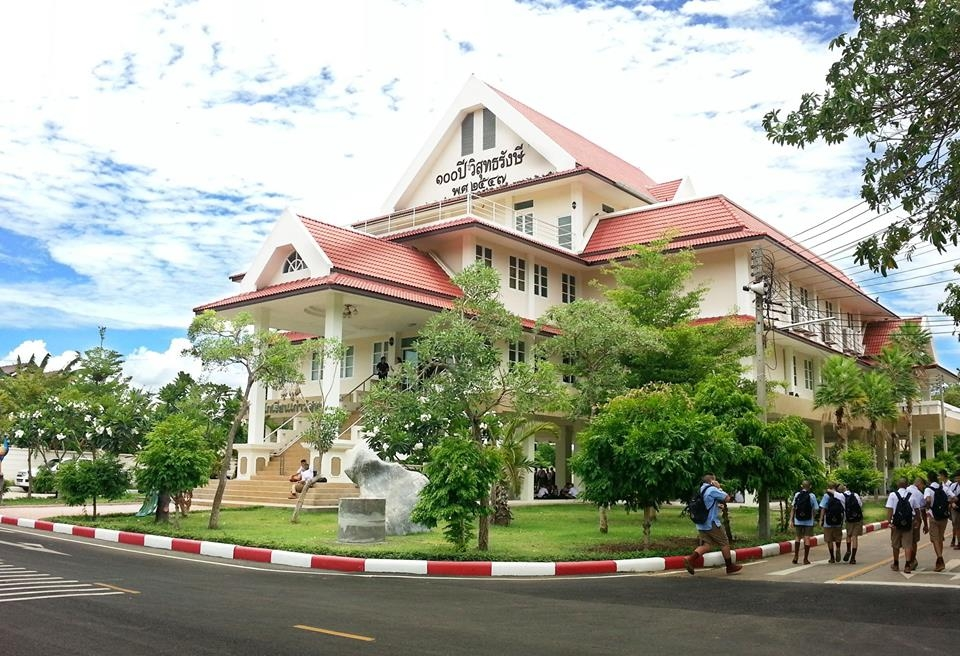 100_years Visut